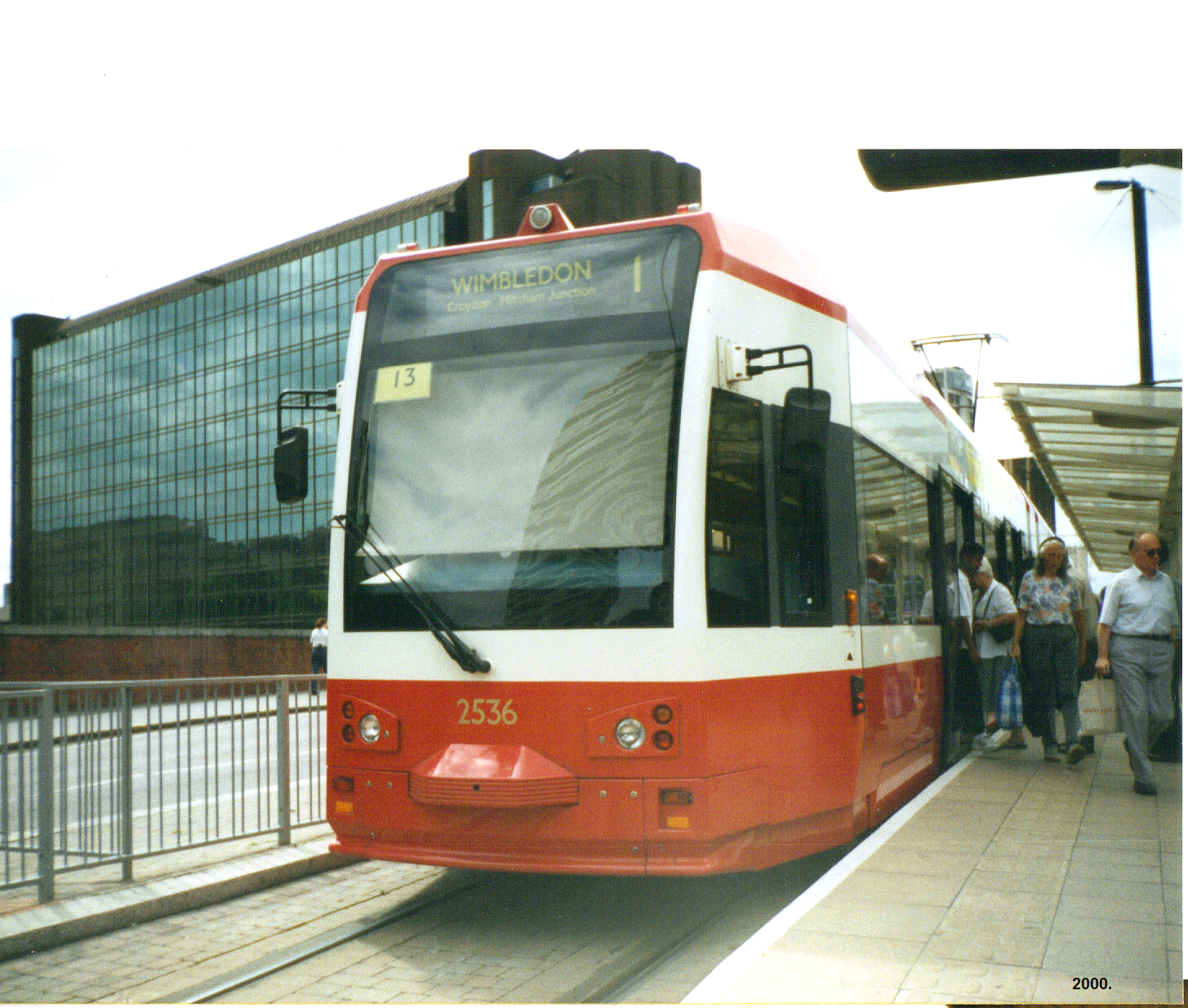 I took the picture of this Croydon Tram my self in Croydon, London in the year 2000. I hear by release it in to the public domain. A png version. It's at East Croydon station.